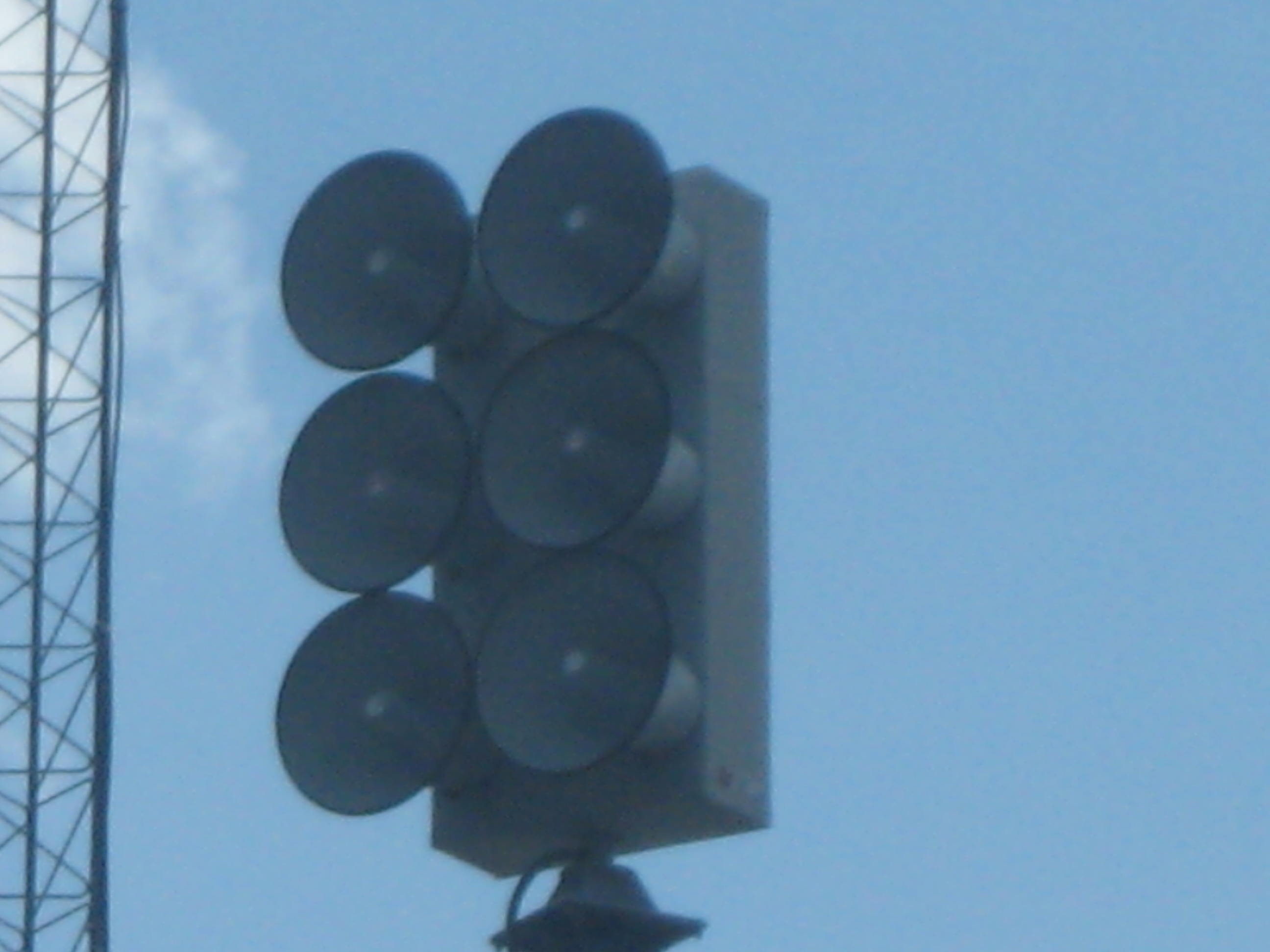 A EOWS 612 Siren in Lakewood, Ohio